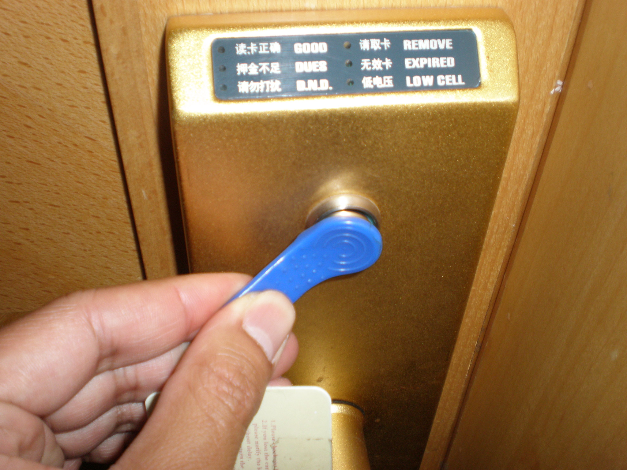 A room lock at the Camellia Hotel in Kunming, Yunnan, PRC that uses an iButton key.